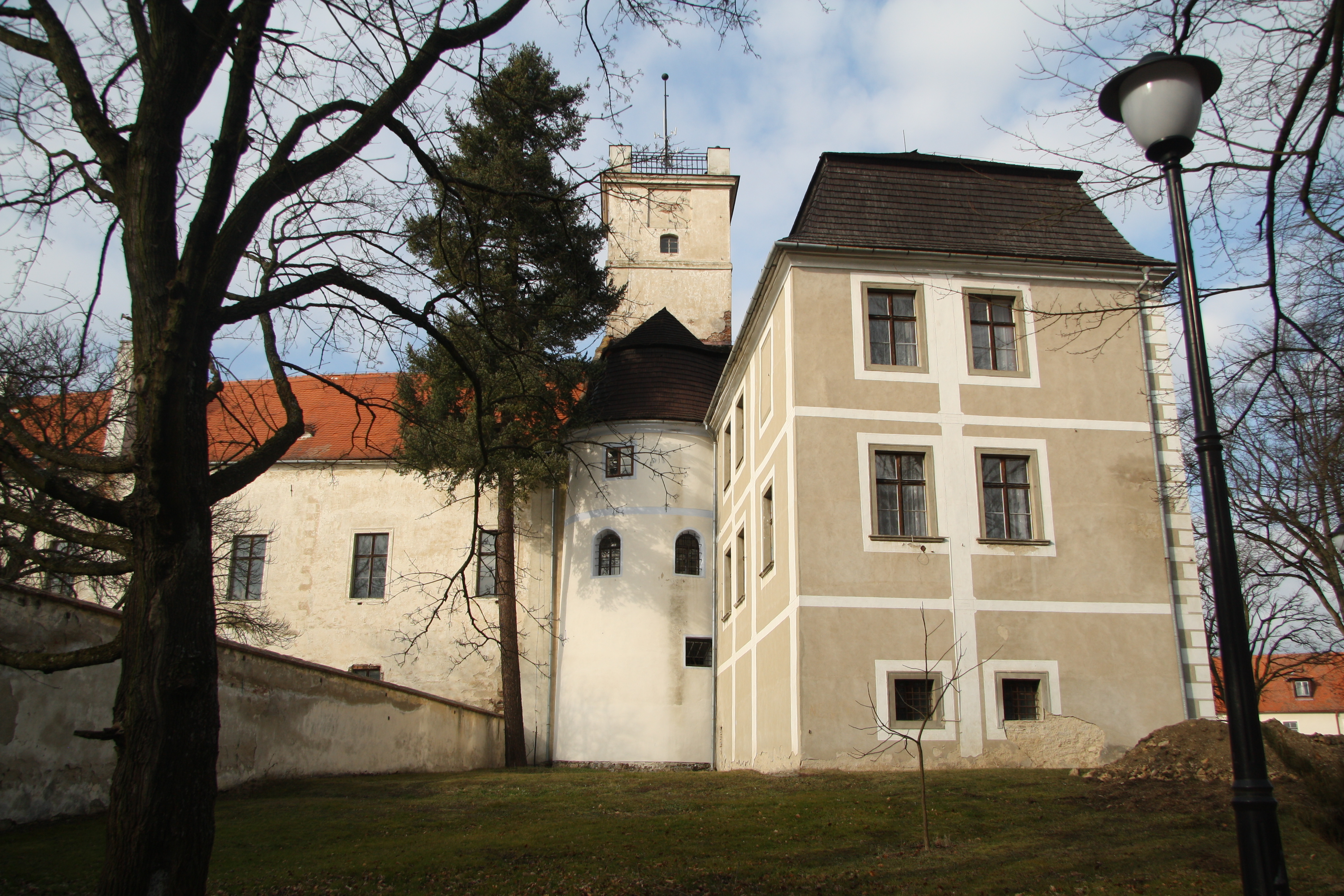 Back view of Police Castle in Police, Třebíč District.